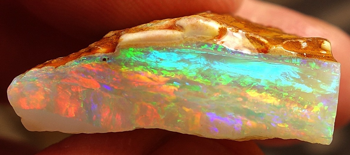 Rough opal from Coober Pedy, South Australia, Dead Horse Gully area. This is high grade (gem grade) precious opal showing full-thickness ("skin-to-skin") play of color. It qualifies as "crystal" opal based on the near-transparency of the background.